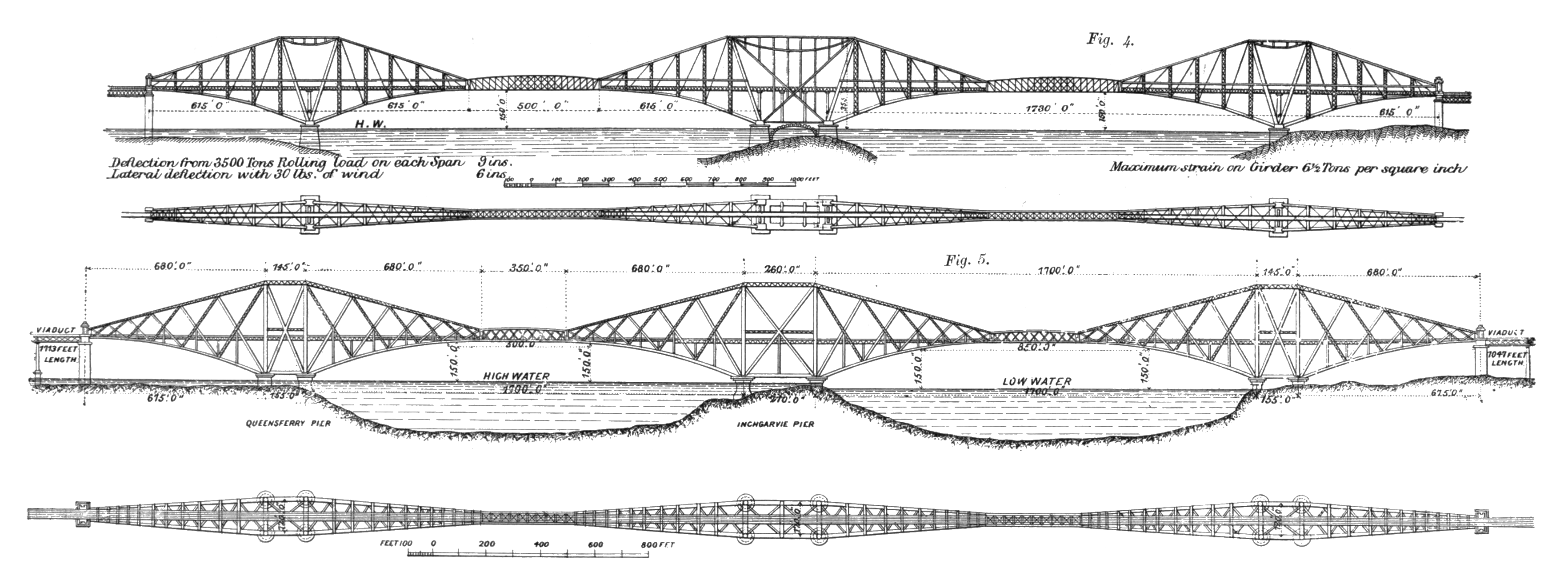 Forth Bridge (1890) Fig. 4, Page 5 (png)